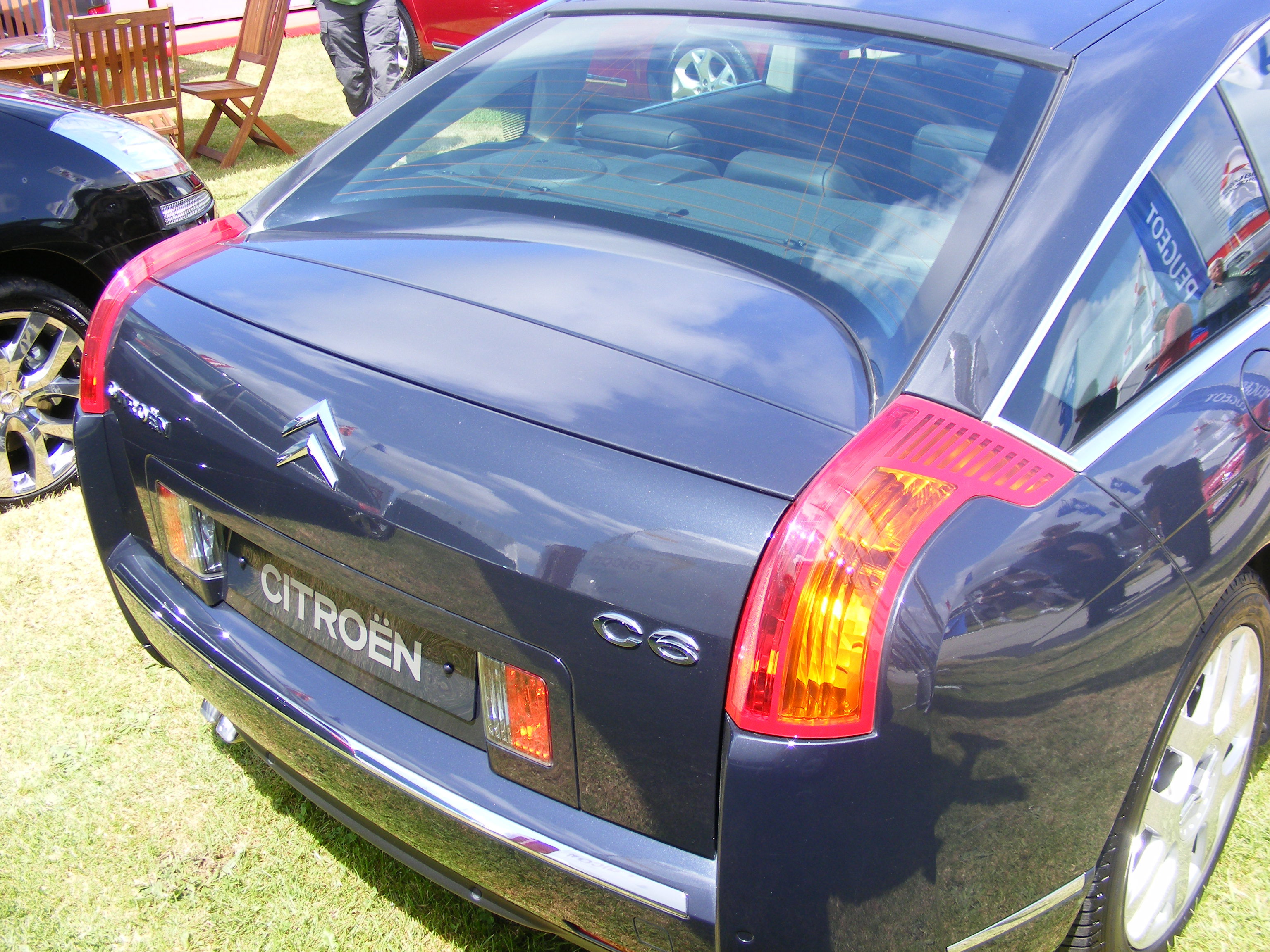 Photo take at Royal Cornwall show in July 2008. Rear section of car.